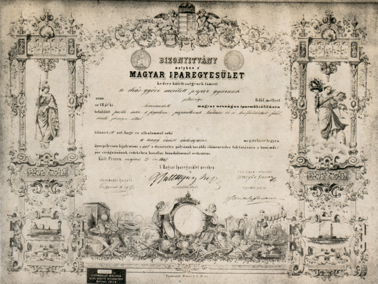 Diploma of Diósgyőr Papermill, 1847